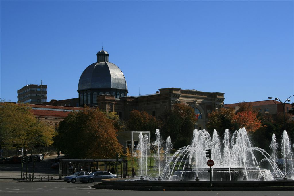 Universidad Politécnica de Madrid in Spain